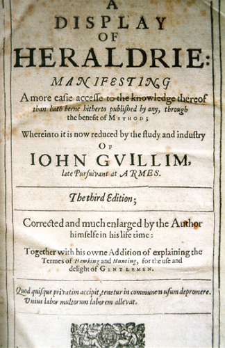 Title page for the third edition of A Displaye of Heraldrie by John Guillim.